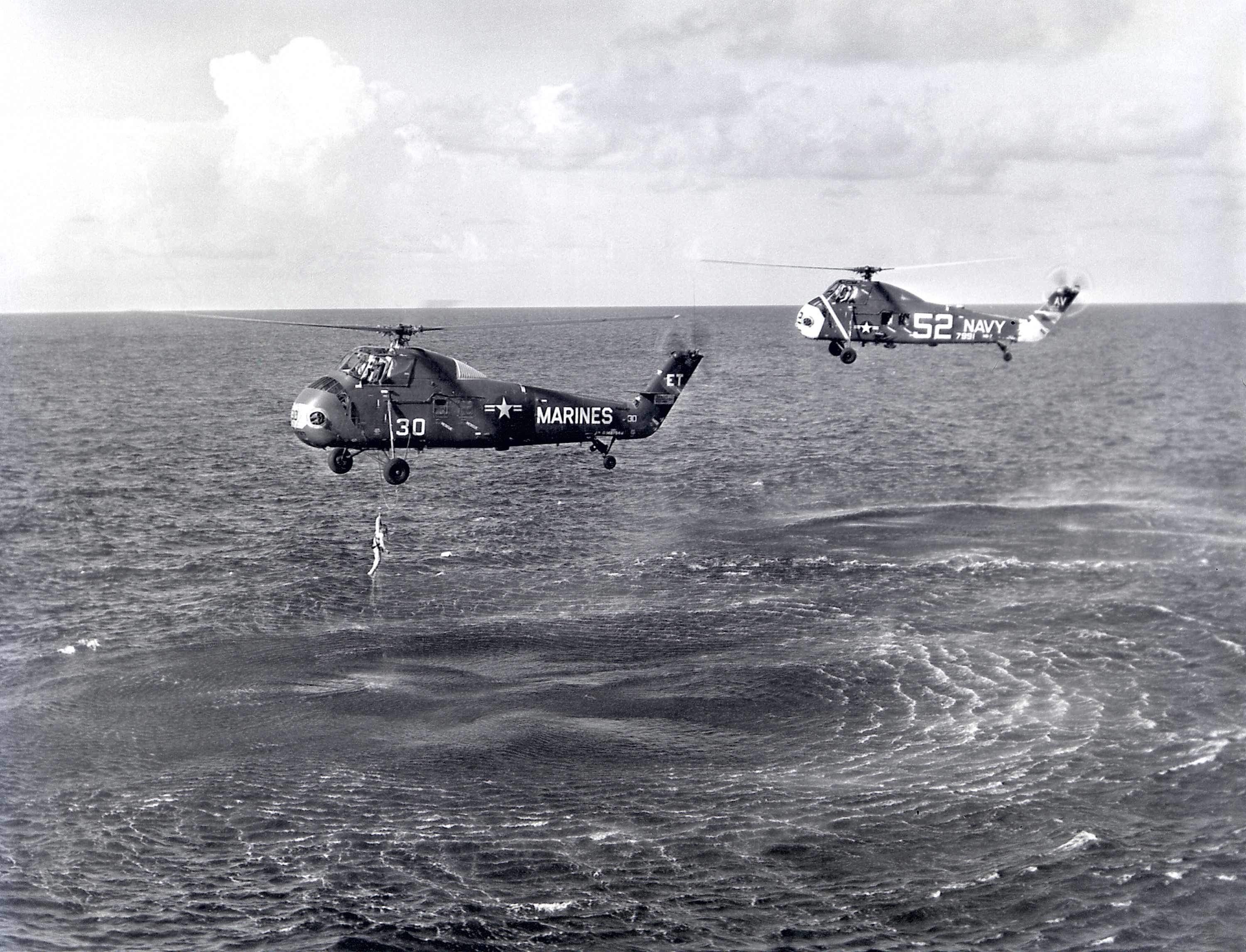 U.S. Marine helicopter pulls astronaut Virgil Grissom from the sea after splashdown at the completion of the MR-4 mission. The spacecraft, Liberty Bell 7, was lost in the sea. The MR-4 mission was the second manned suborbital flight. The helicopter on the left is a Sikorsky HUS-1 Seahorse of Marine medium transport squadron HMR(L)-262 Det. Flying Tigers, on the right is a US Navy Sikorsky HSS-1N Seabat of helicopter anti-submarine squadron HS-7 Big Dippers, both assigned to Carrier Anti-Submarine Air Group 58 (CVSG-58) aboard the recovery ship USS Randolph (CVS-15).